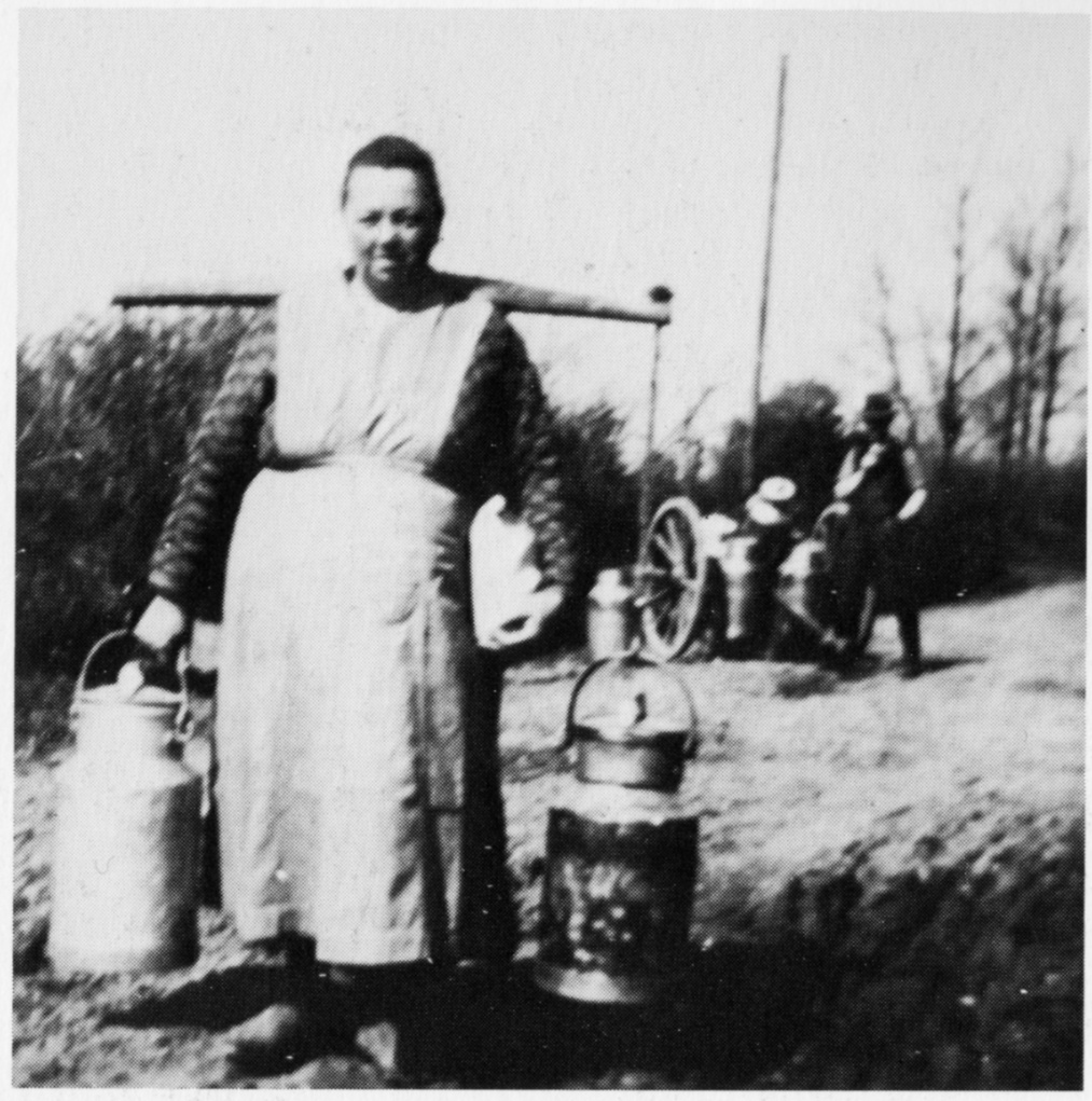 Milk cans and yoke, Fjelstrup, Haderslev, Denmark